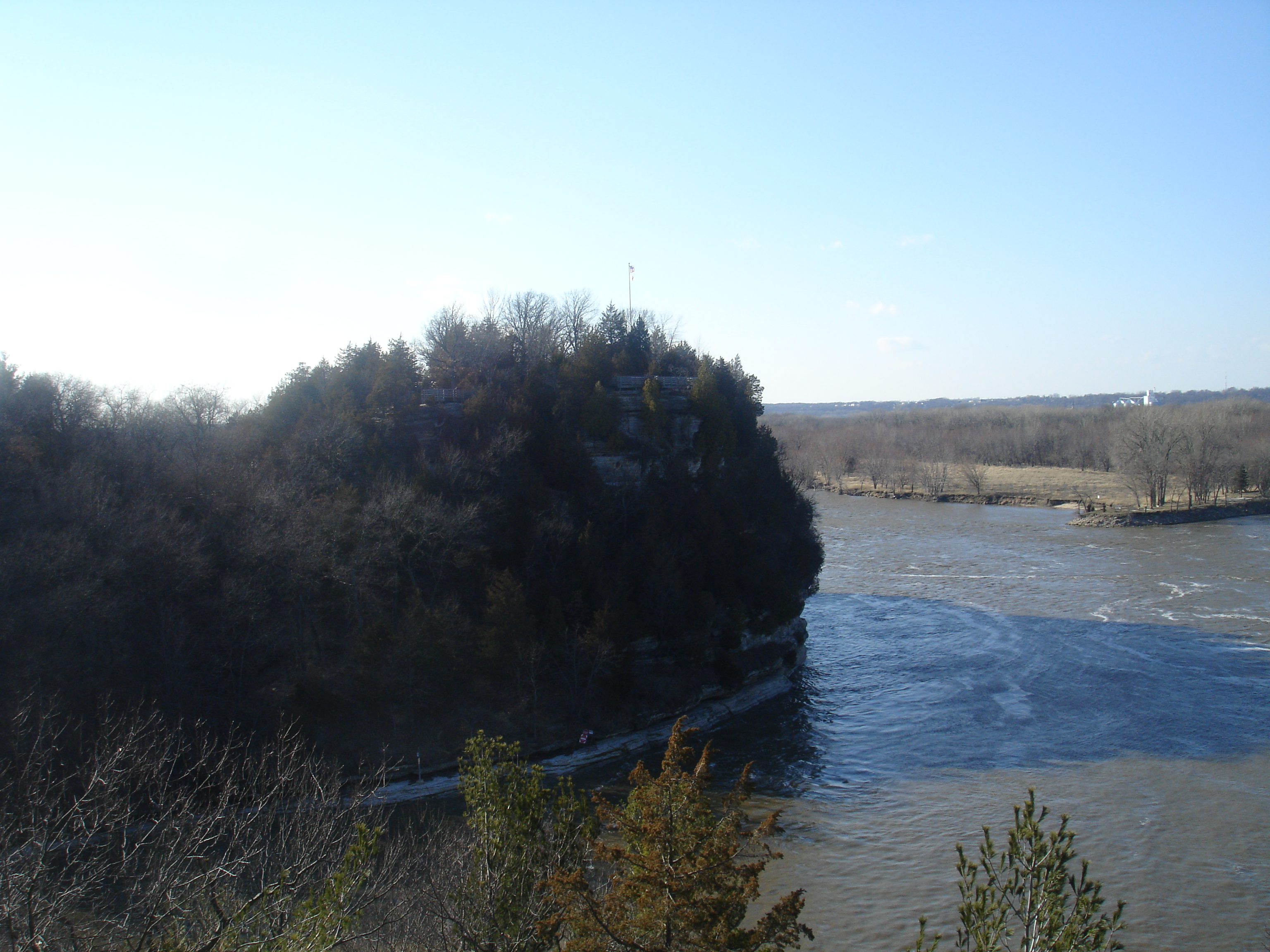 I made this. Please credit.